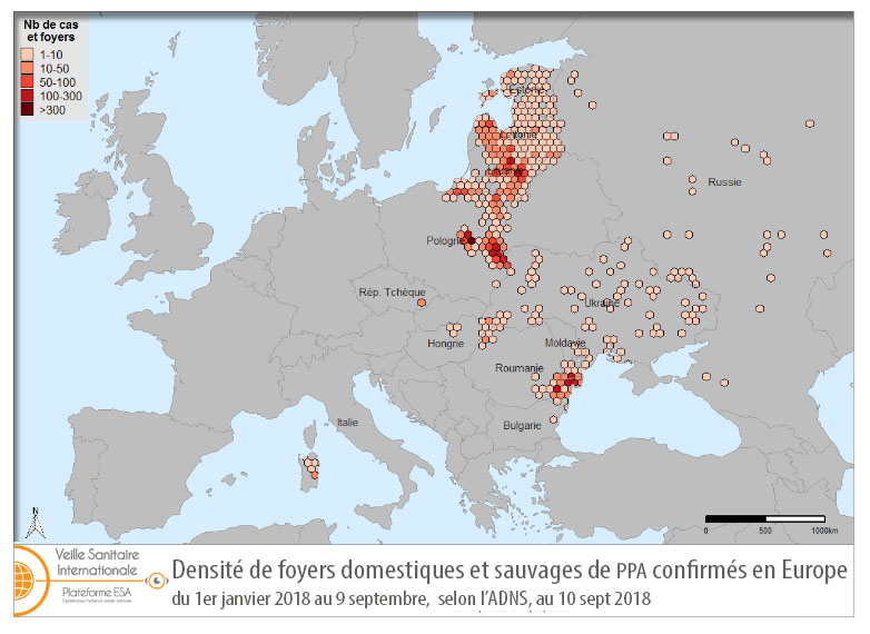 African Swine Fever from 1.01.2018 to 09.09.2018, just before the declaration of a new outbreak (in wild boars), far west of existing homes in Wallonia (belgium).